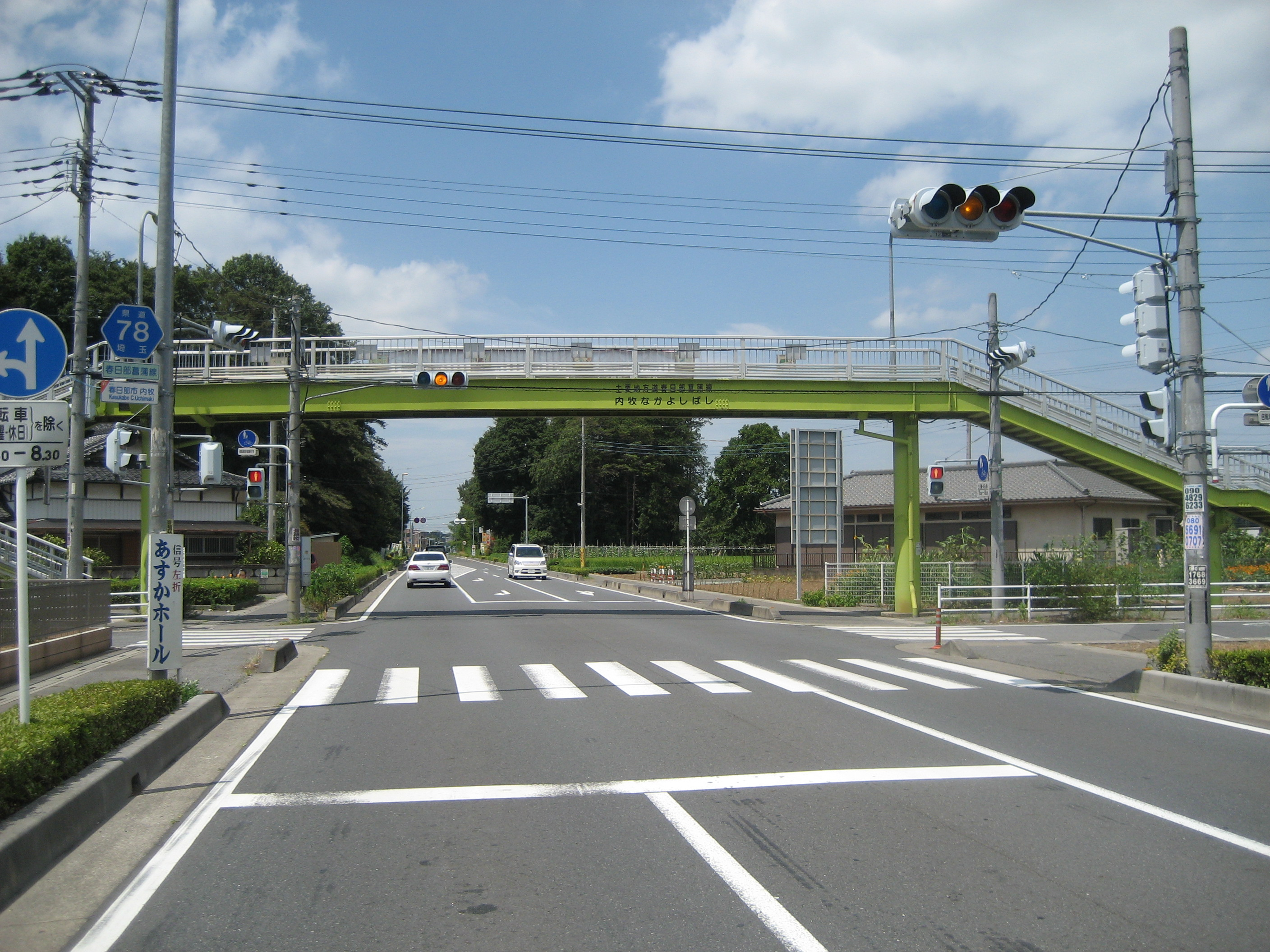 The Saitama Prefectural Road Route 78 in Uchimaki, Kasukabe City